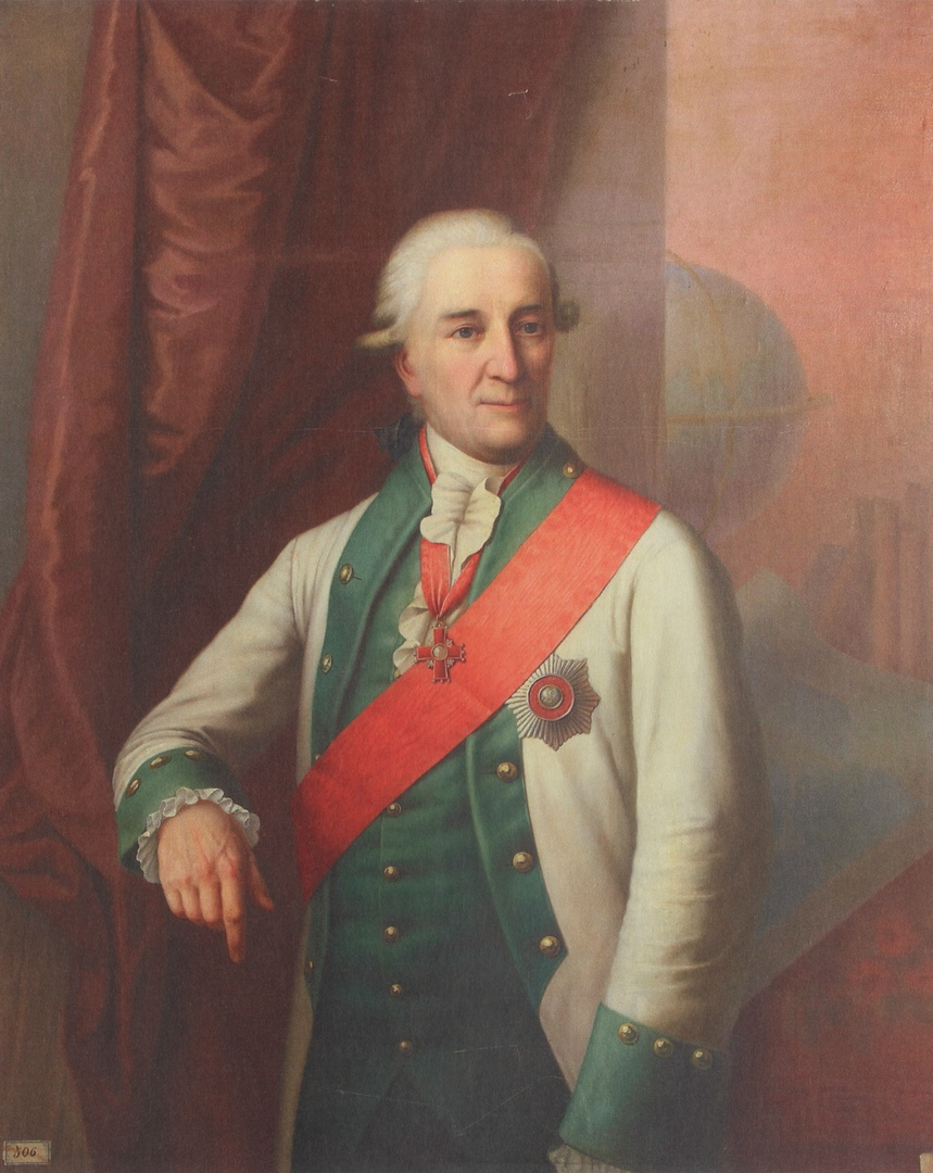 Senyavin Alexey Naumovich